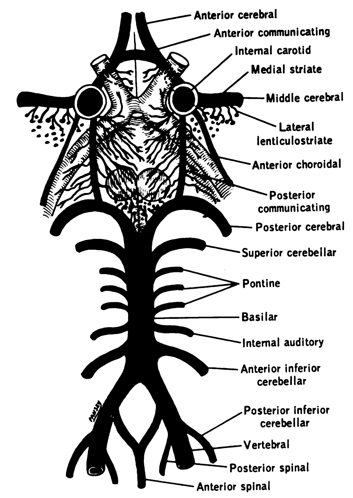 Anatomical illustration of the human nervous system from the 1960 book A functional approach to neuroanatomy